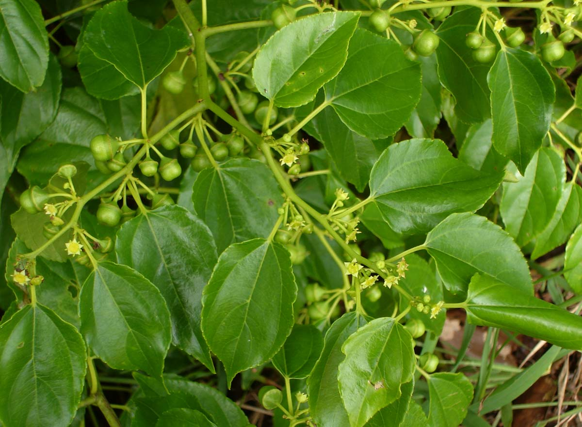 Colubrina asiatica; close up; (fihoʻa) along Tongan beach